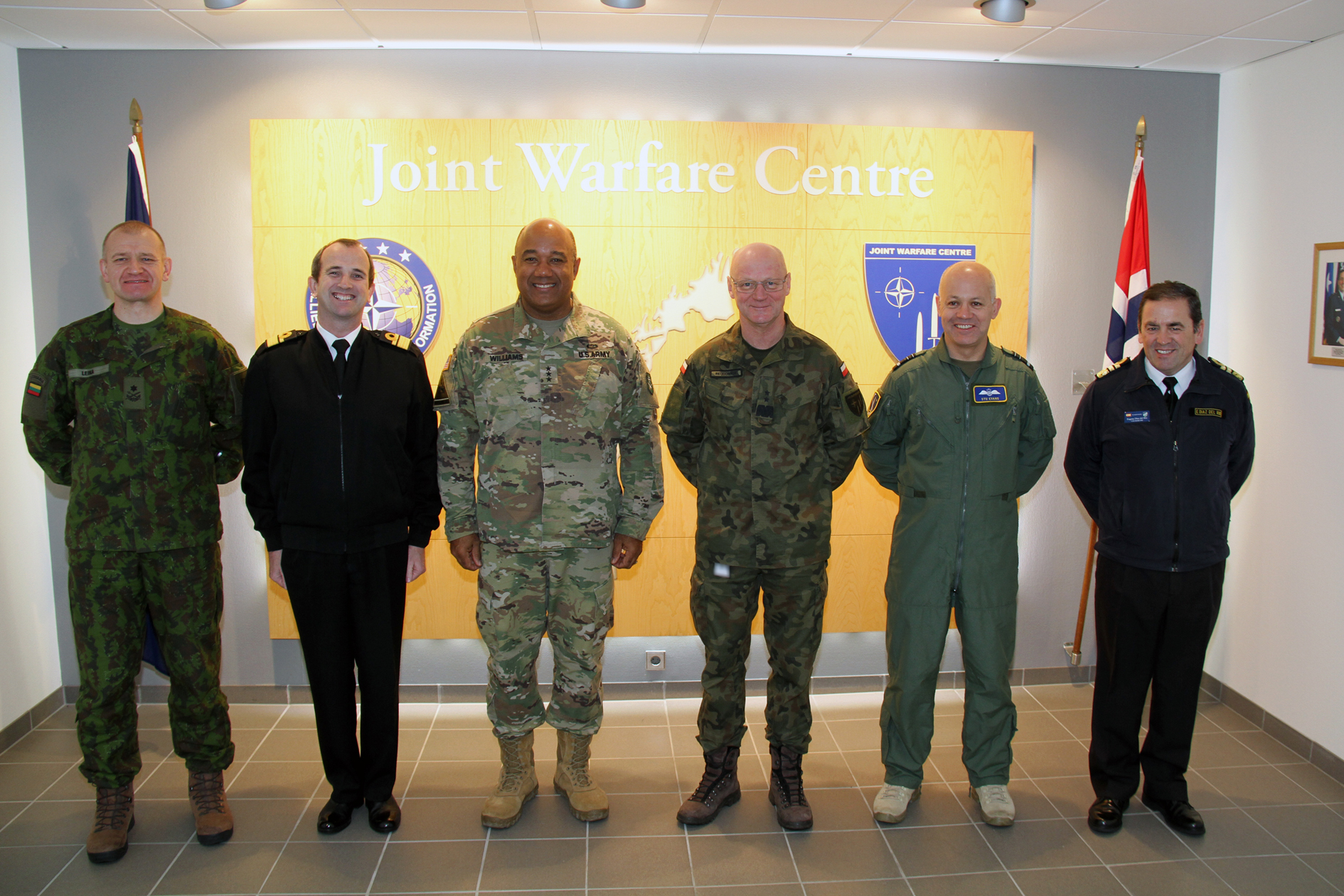 TRIDENT JAVELIN 2017 Commanders’ Conference